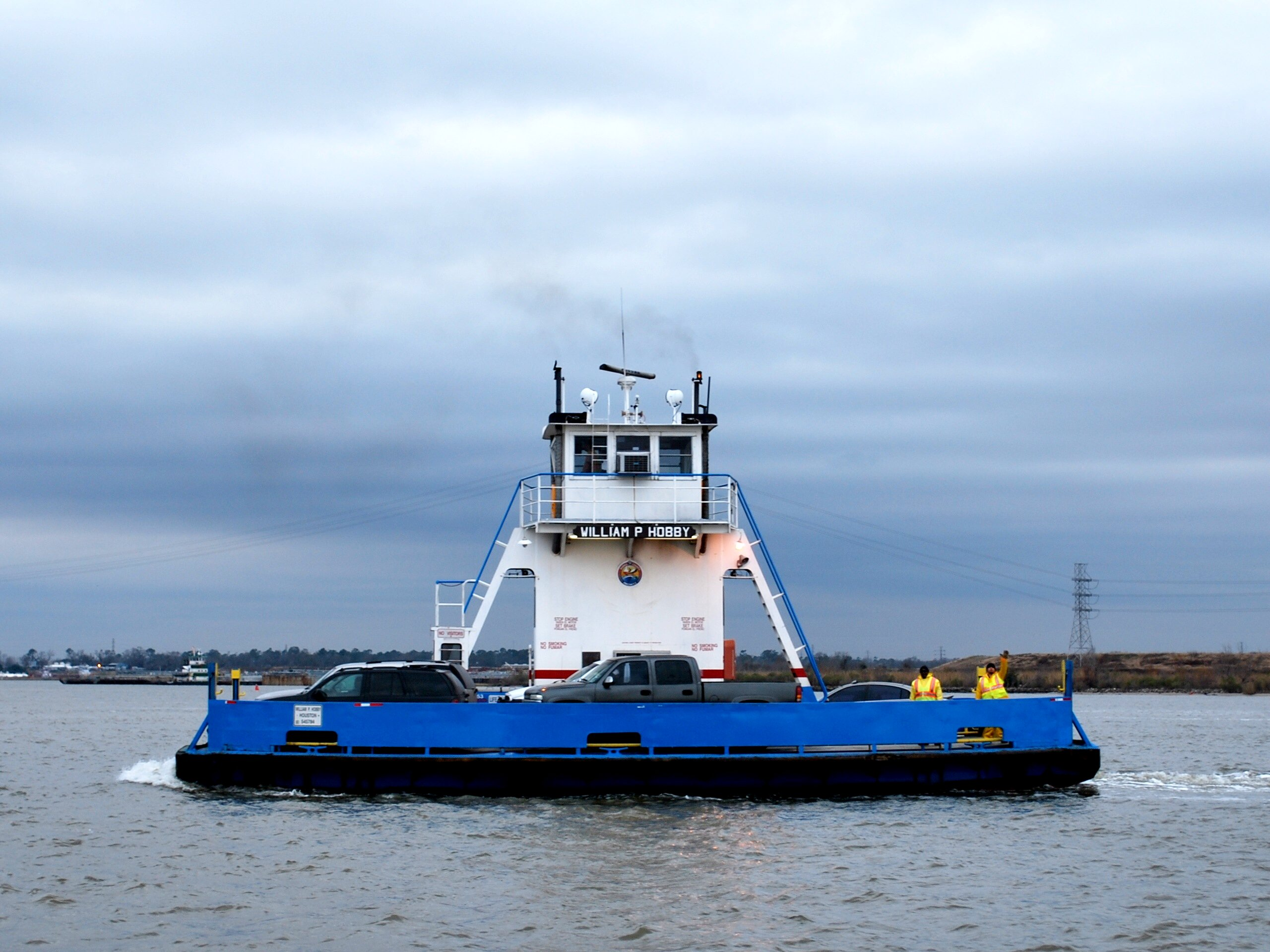 The Lynchburg Ferry is a ferry across the Houston Ship Channel in the U.S. state of Texas, connecting Crosby-Lynchburg Road in Lynchburg to the north with the former State Highway 134 and San Jacinto Battleground State Historic Site in La Porte to the south. The 1,080 feet (330 m) crossing is the oldest operating ferry service within the state of Texas. For more info see